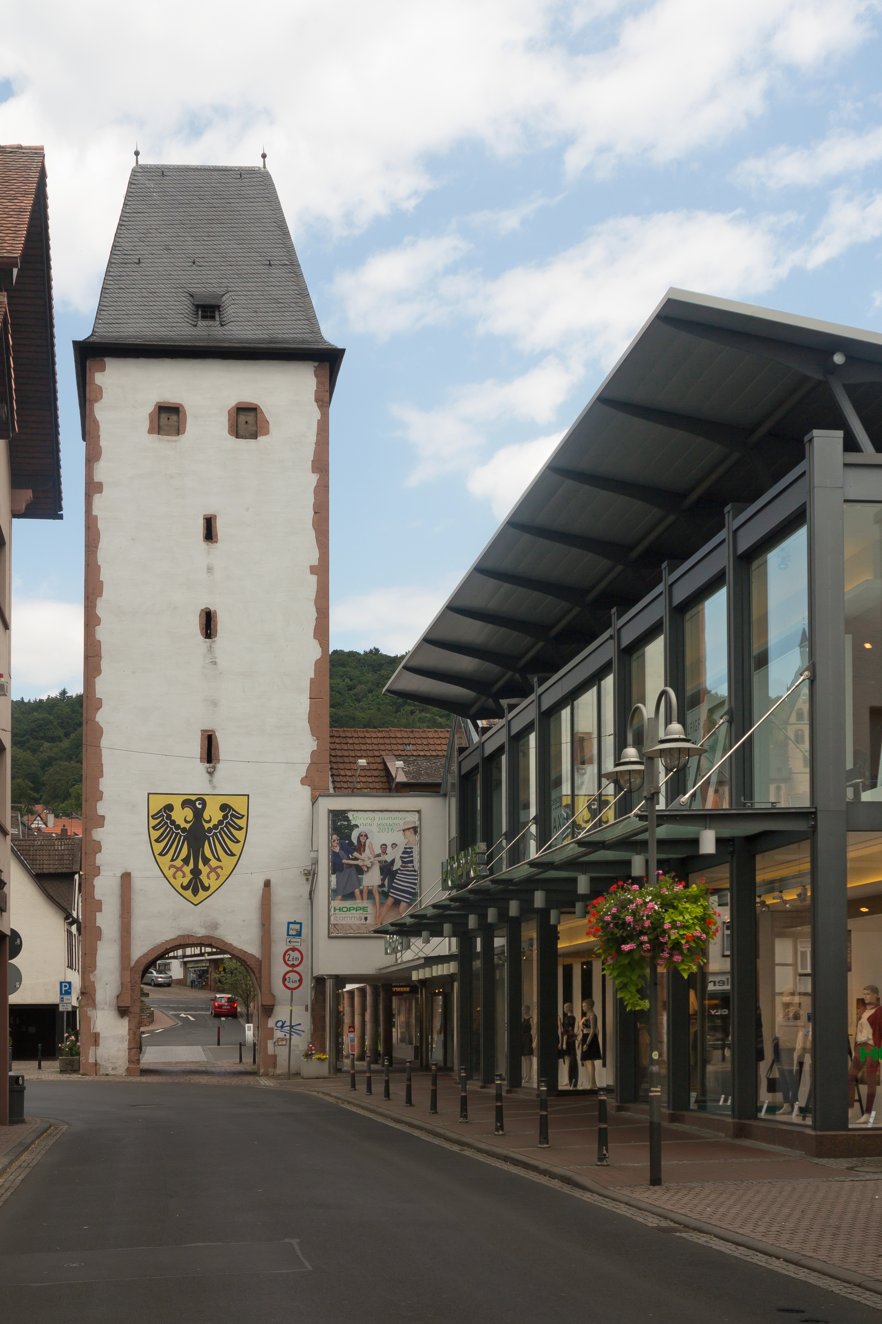 Gelnhausen, towngate: das Ziegeltor